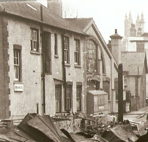 A small section of background detail from a photograph in the Barrett Collection, showing the Westgate Hall having survived the 1944 bombing of Canterbury in World War II. The main photo, from which this extract was taken, showed the bombed Barretts premises in the foreground. Full archive, library and online searches have been made to ascertain the name of the photographer, without success.